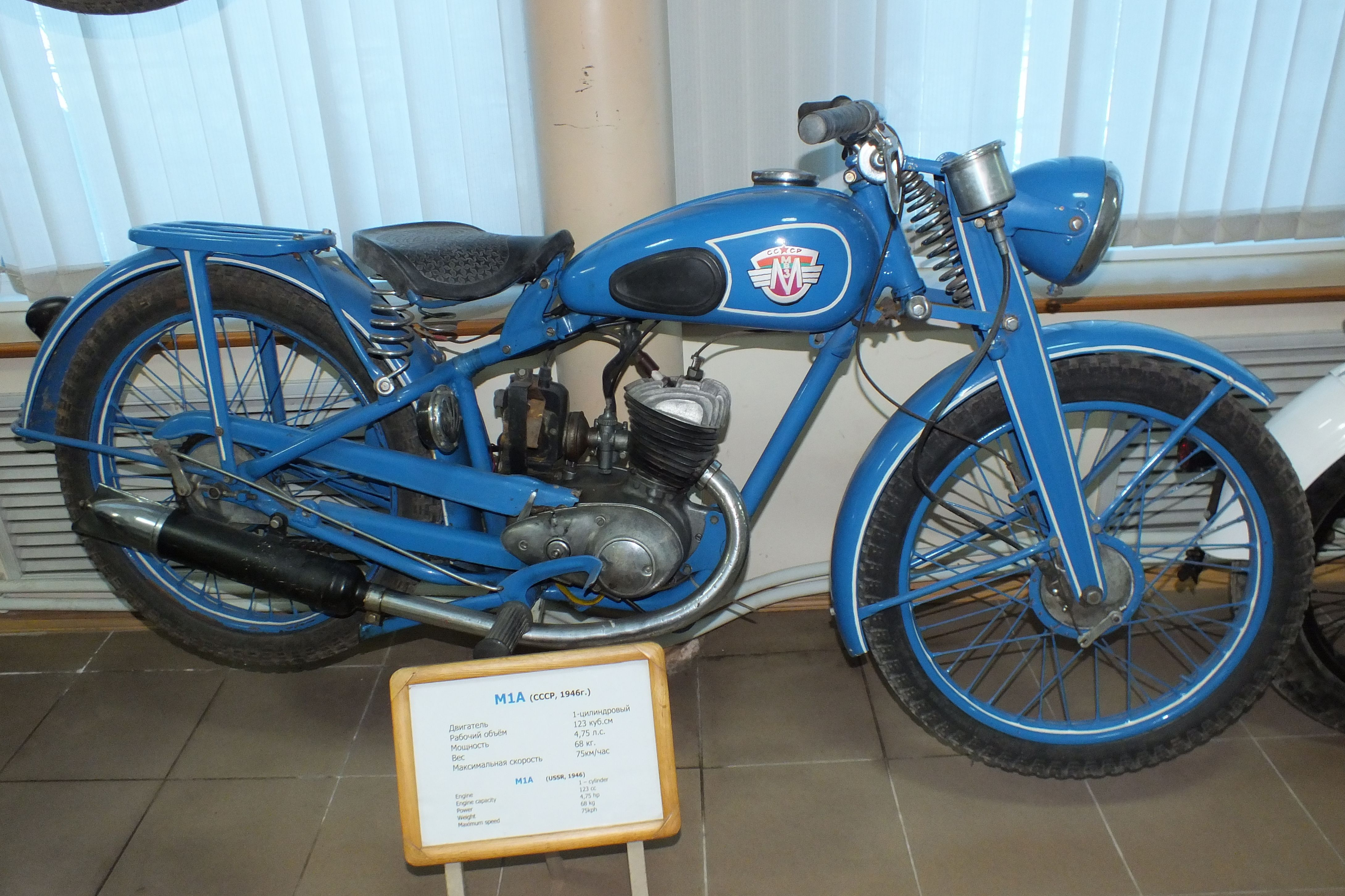 Motorcycles of Russia